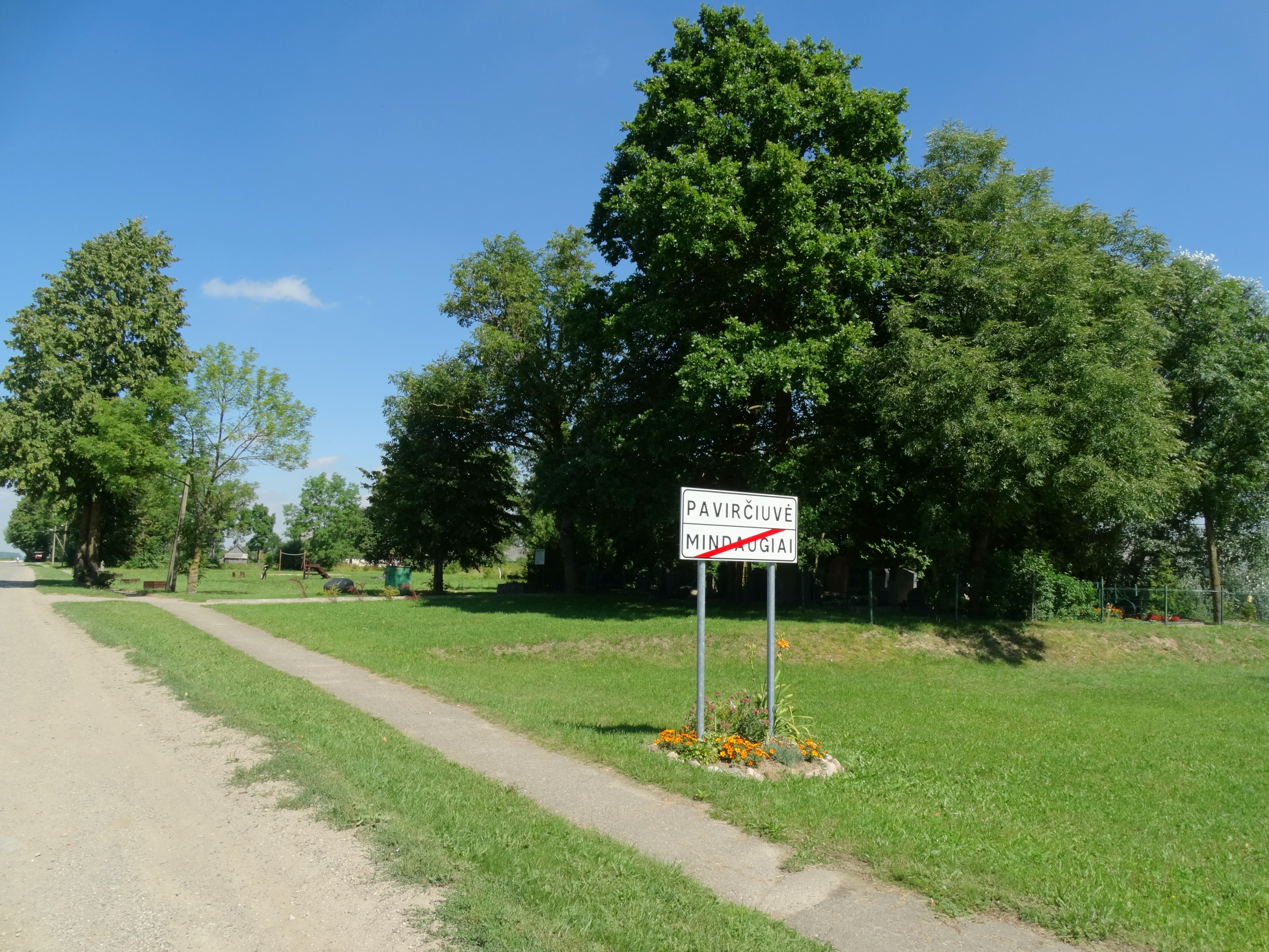 Pavirčiuvė, Joniškis district, Lithuania